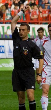 Vitaly Doroshenko in match between FC Lokomotiv Moscow and FC Amkar